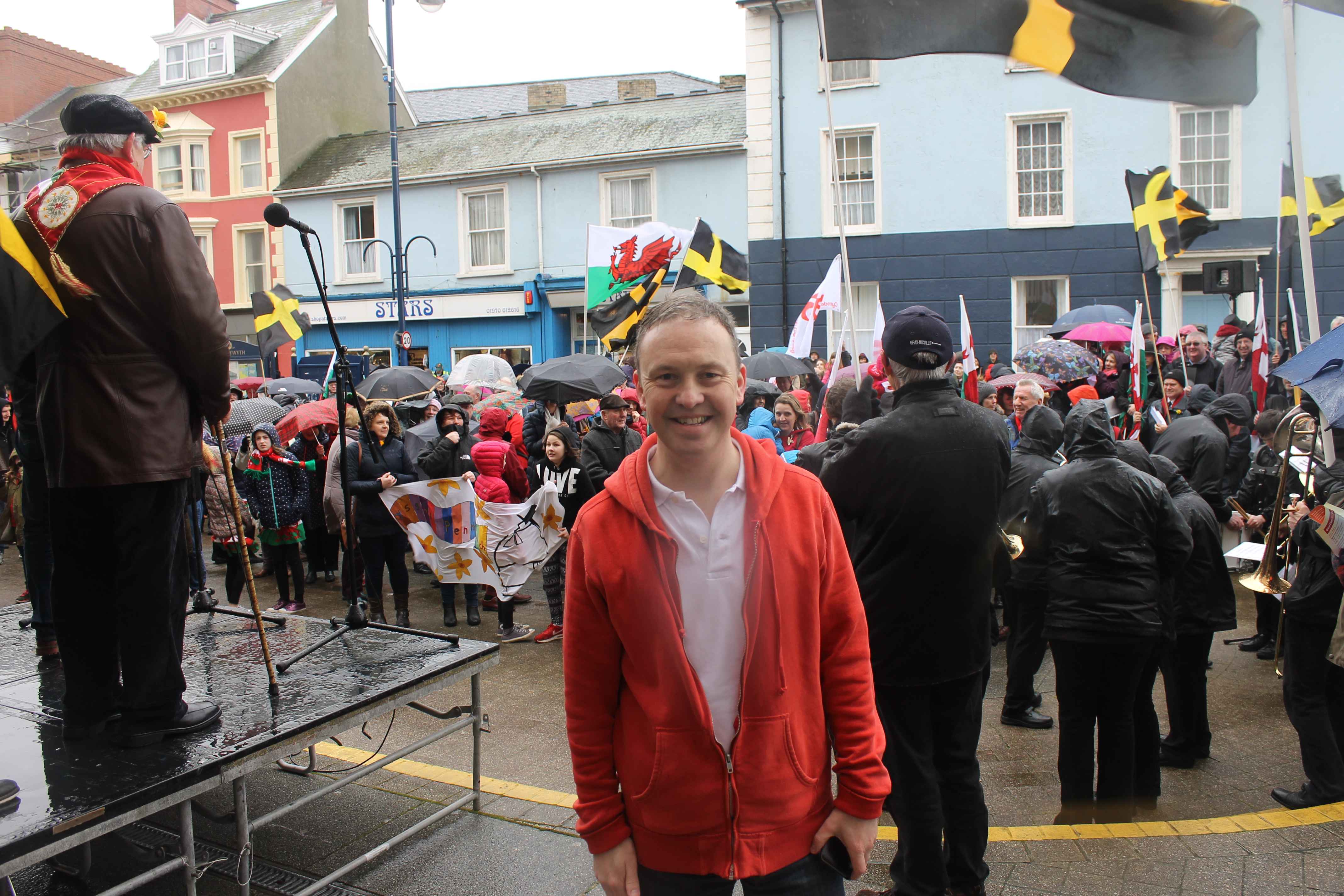 St David's Day Parade, Aberystwyth, Ceredigion, Wales.